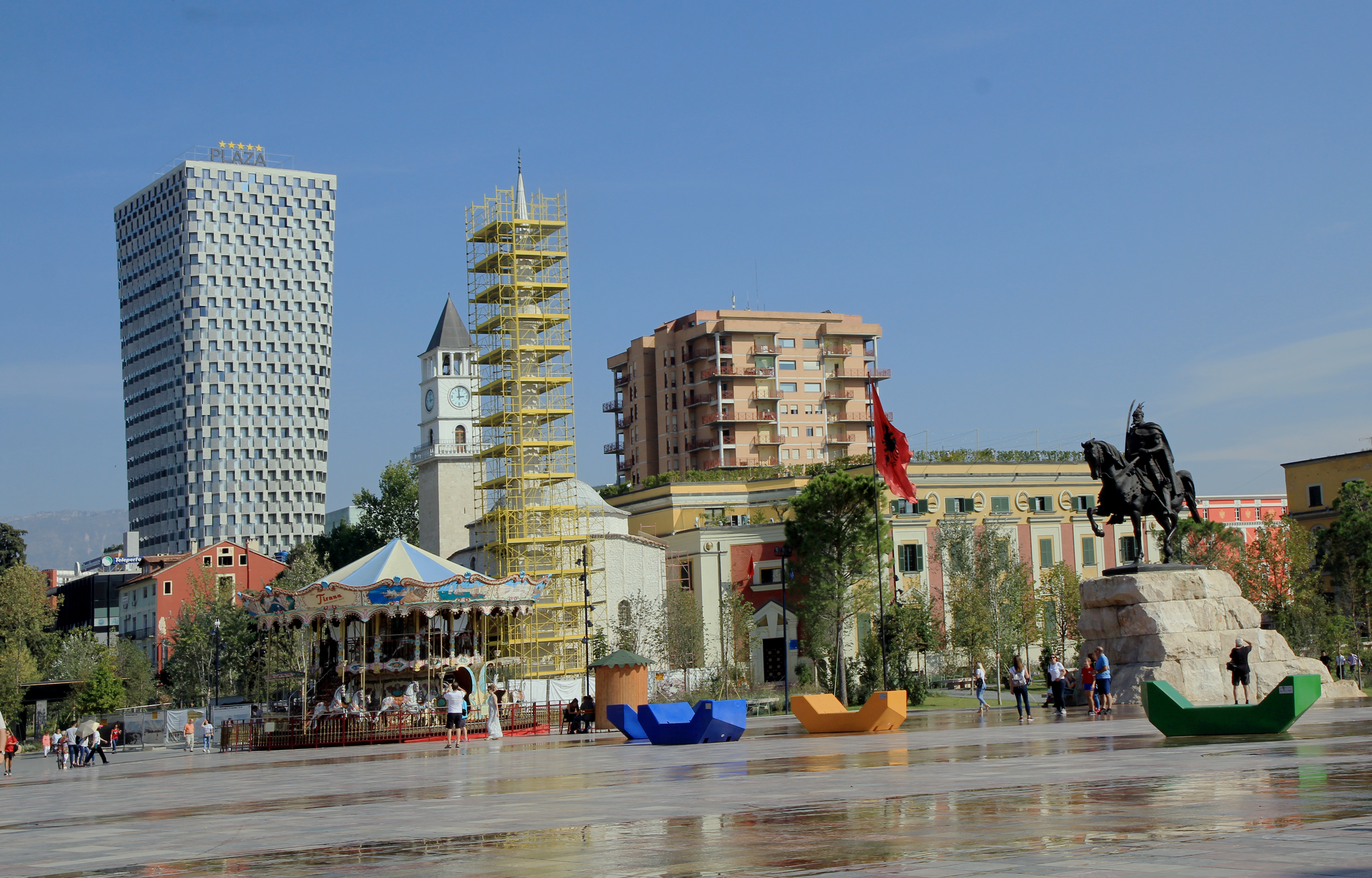 The Skanderbeg Square with Skanderbeg Monument, Clock Tower, Plaza hotel and Et'hem Bey Mosque in the centrum of the capitol of Albania, Tirana, September 2018